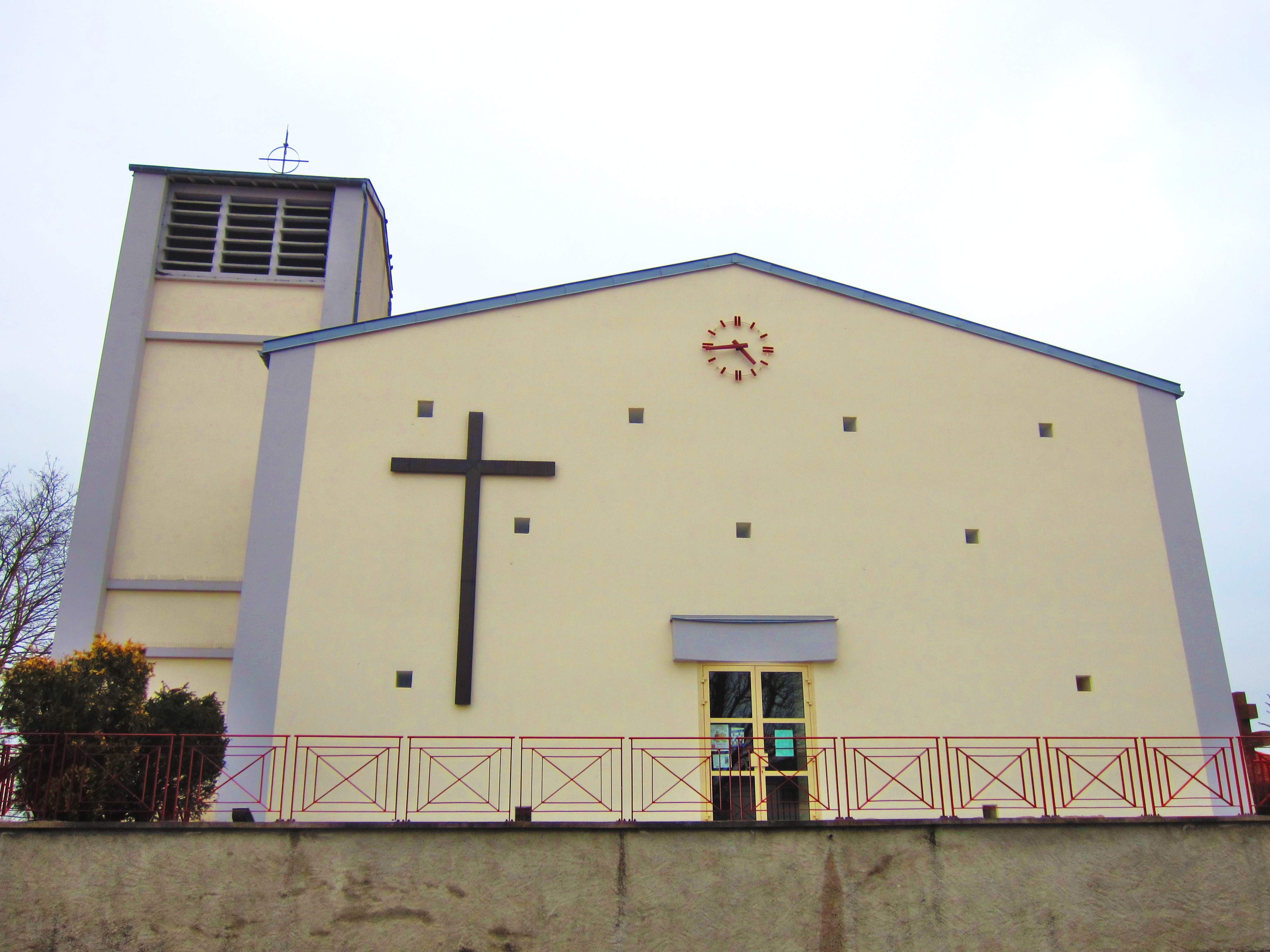 Pournoy Chetive church